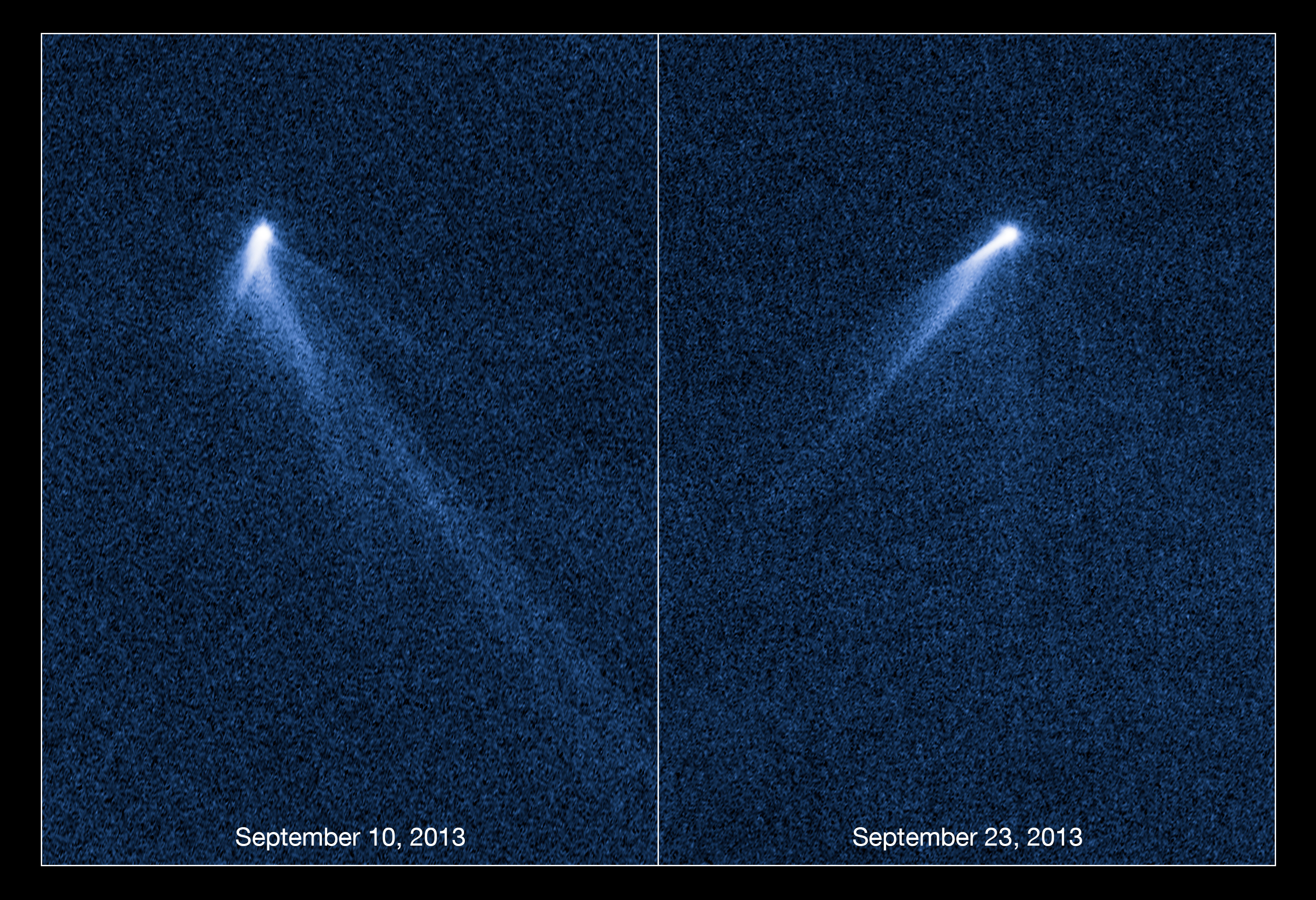 These NASA/ESA Hubble Space Telescope images reveal a never-before seen set of six comet-like tails radiating from a body in the asteroid belt and designated P/2013 P5. The asteroid was discovered as an unusually fuzzy looking object by astronomers using the Pan-STARRS survey telescope in Hawaii. The multiple tails were discovered in Hubble images taken on 10 September 2013. When Hubble returned to the asteroid on 23 September its appearance had totally changed — it looked as if the entire structure had swung around. One interpretation is that the asteroid's rotation rate has increased to the point where dust is falling off the surface and escaping into space, where it is swept out into tails by the pressure of sunlight. According to this theory, the asteroid's spin has been accelerated by the gentle push of sunlight. Based on an analysis of the tail structure, the object has ejected dust for at least five months. These visible-light images were taken with Hubble's Wide Field Camera 3. P/2013 P5 is seen on the left as viewed on 10 September 2013, and on the right as seen on 23 September 2013.